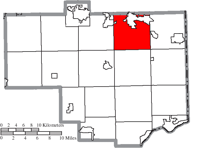 Map of the municipal and township boundaries of Columbiana County, Ohio, United States, as of the 2000 census, with the location of Fairfield Township highlighted. Township borders are shown only in unincorporated areas in order to differentiate incorporated and unincorporated areas more clearly.